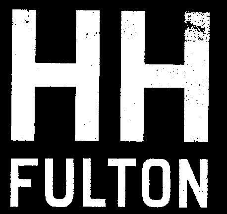 IND R1 end rollsign.